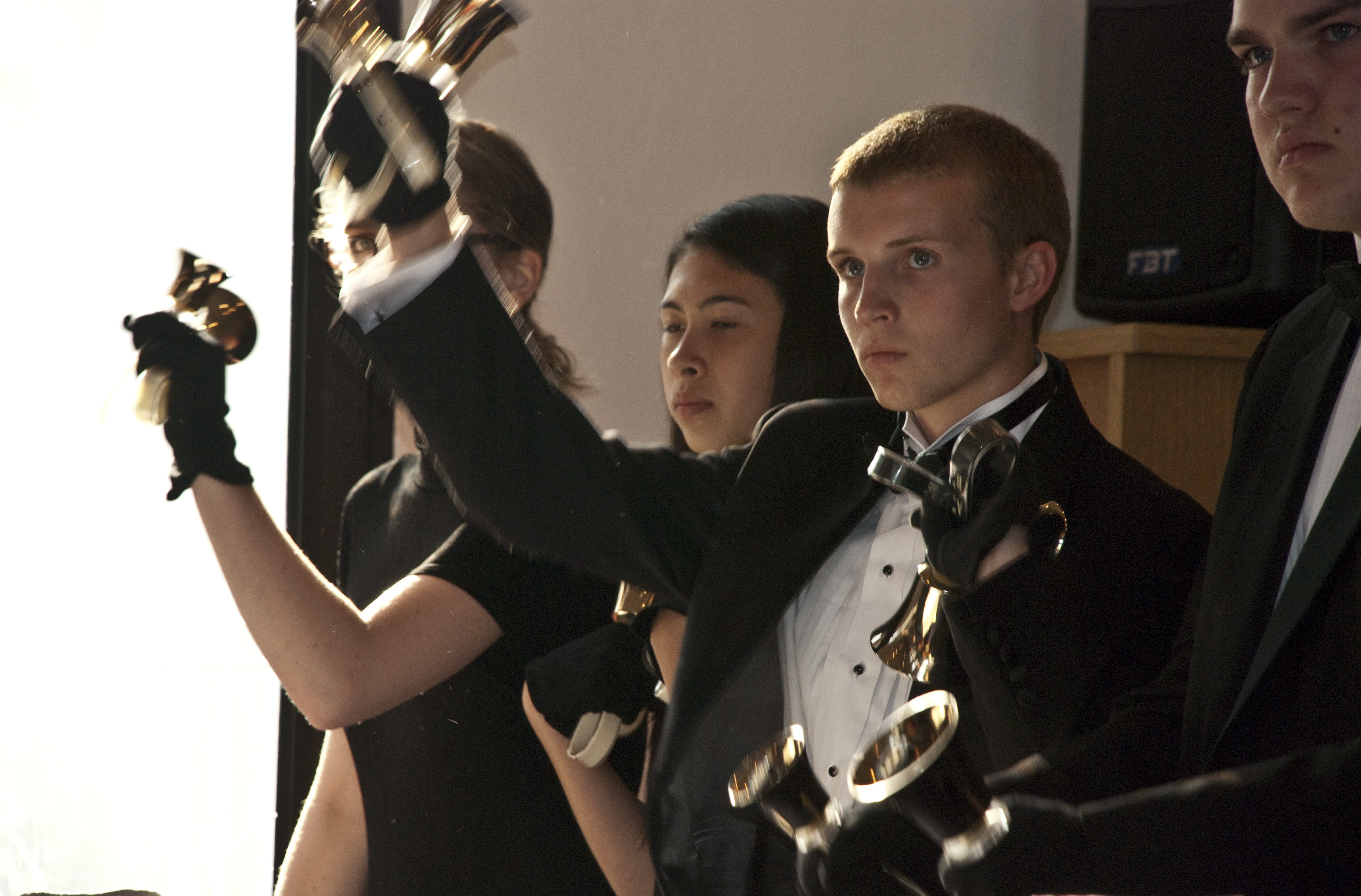 Handbell Ringers (left to right) Katharine Starke, Emily Graf, Brian George, and Keven Karol perform "Down by the Riverside", an American folk tune arrangement by Arnold Sherman, for the Camp Darby Italy military community on July 13, 2009.